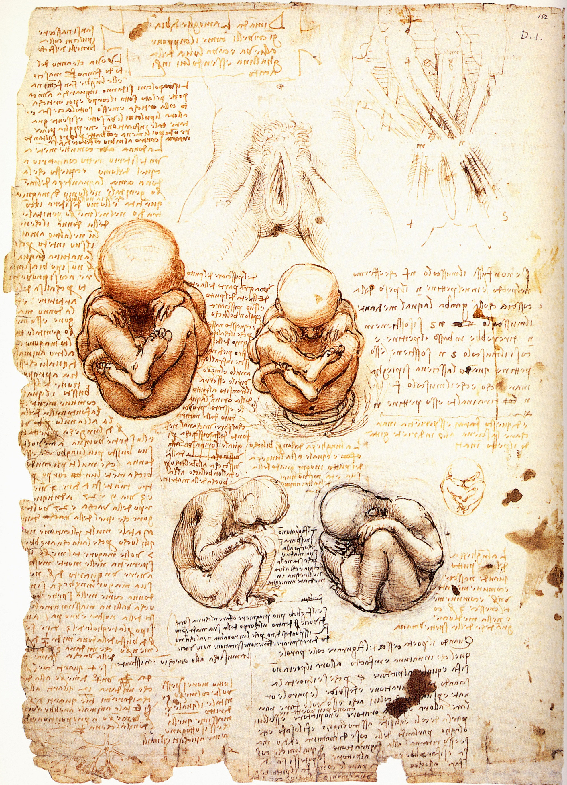 Studies of the Foetus in the Womb.